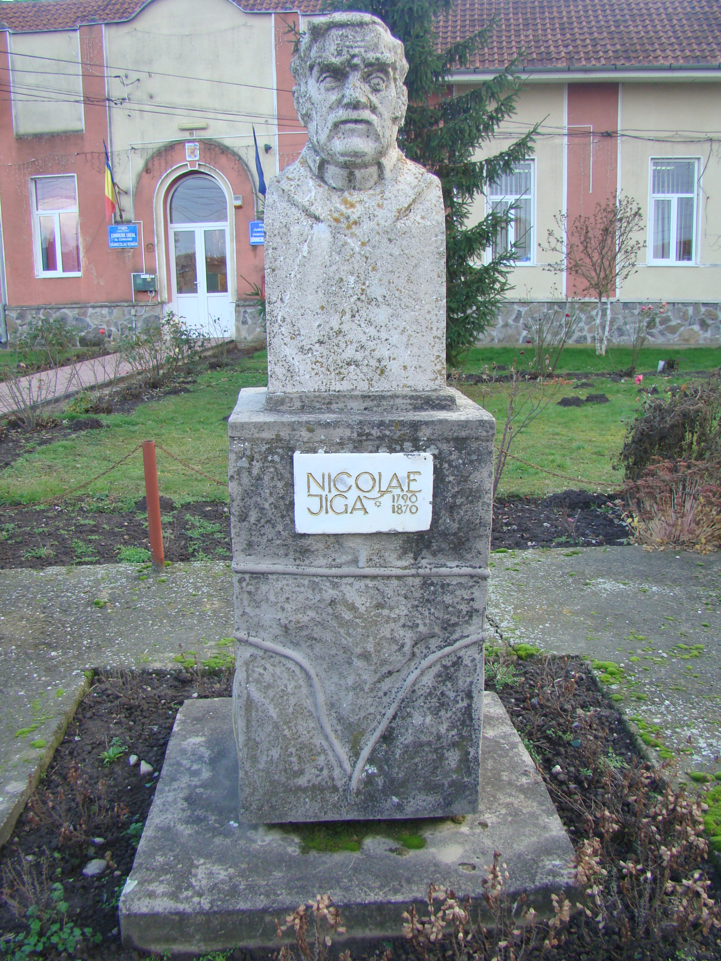 Bust of Nicolae Jiga in Sânnicolau Român, Bihor county, Romania